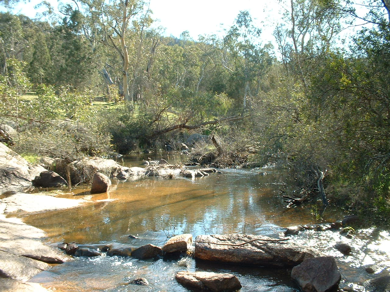 Reids Creek in the Woolshed Valley, downstream from the site of bushranger Joe Byrnes cottage, not far from Beechworth, Victoria.